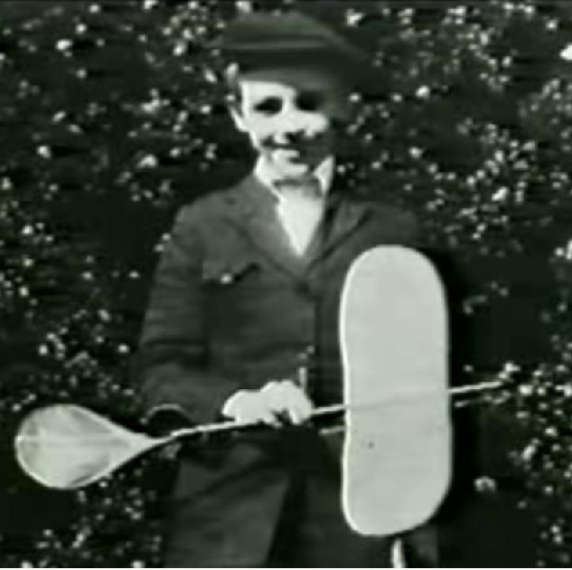 Childhood photo of Elrey, from memorial